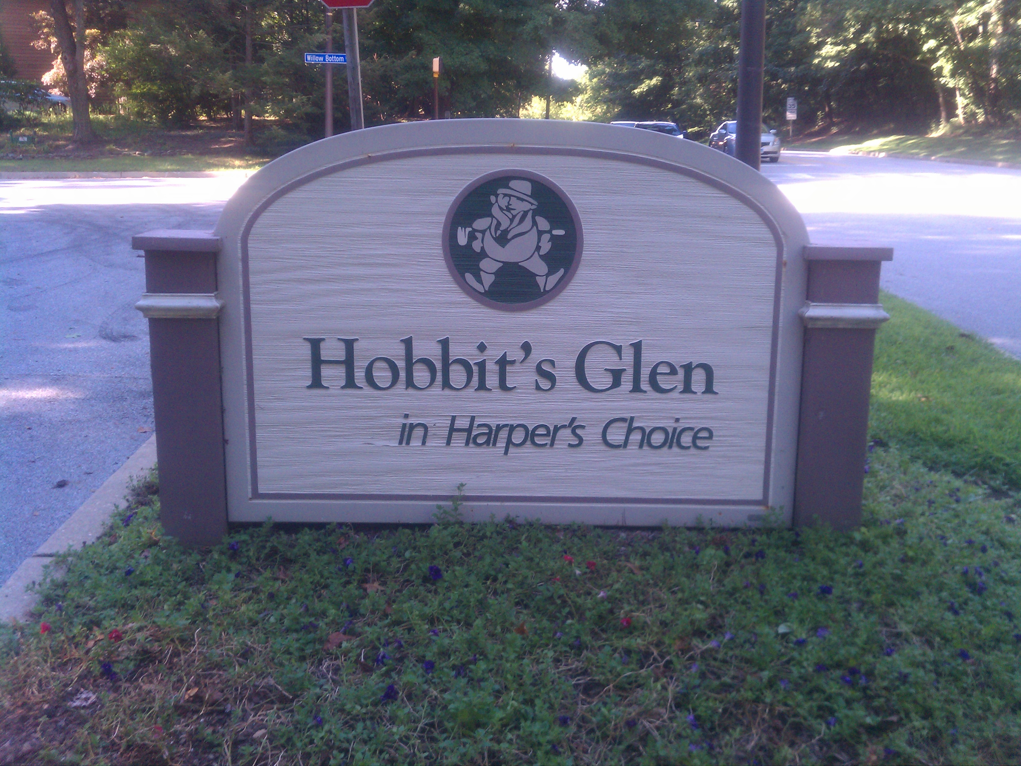 Sign for "Hobbit's Glen" development in Harper's Choice, Columbia, Maryland.